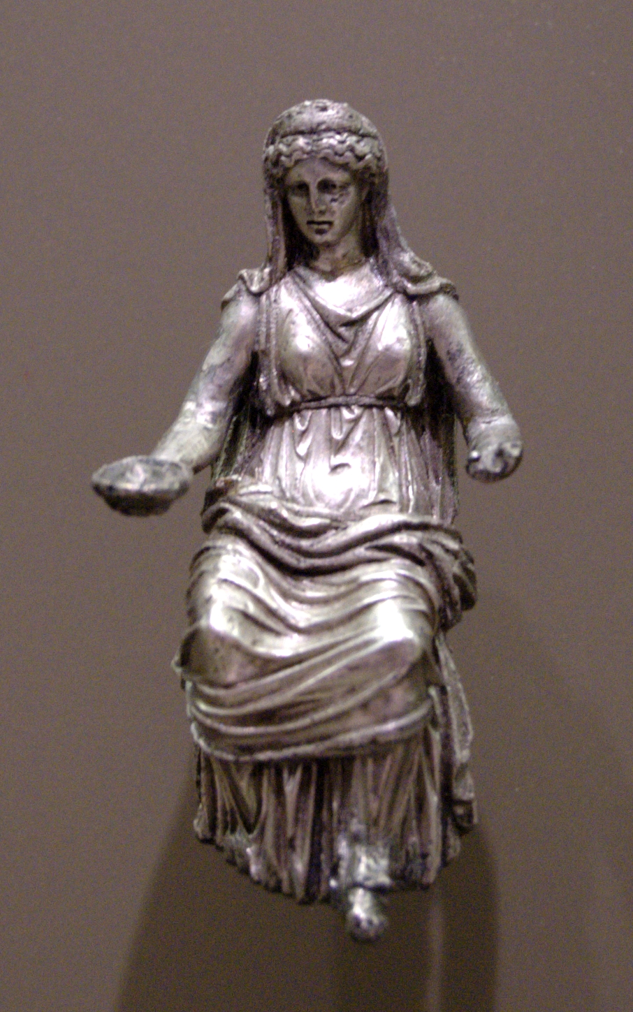 Juno. Silver statuette, 1st–2nd century. Produced in Rome?